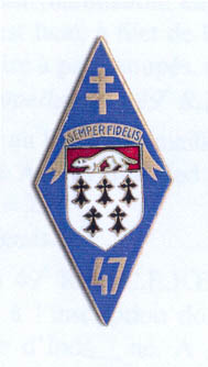 regimental badge of the 47st Infantry Regiment (1939).